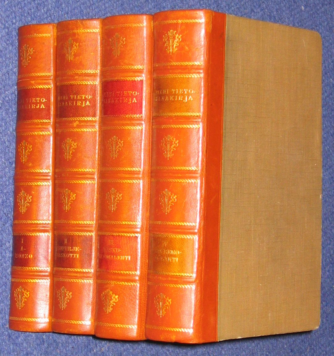 Book covers. "Pieni tietosanakirja", 4 vol., 1925-1928, Finnish small encyclopedia.